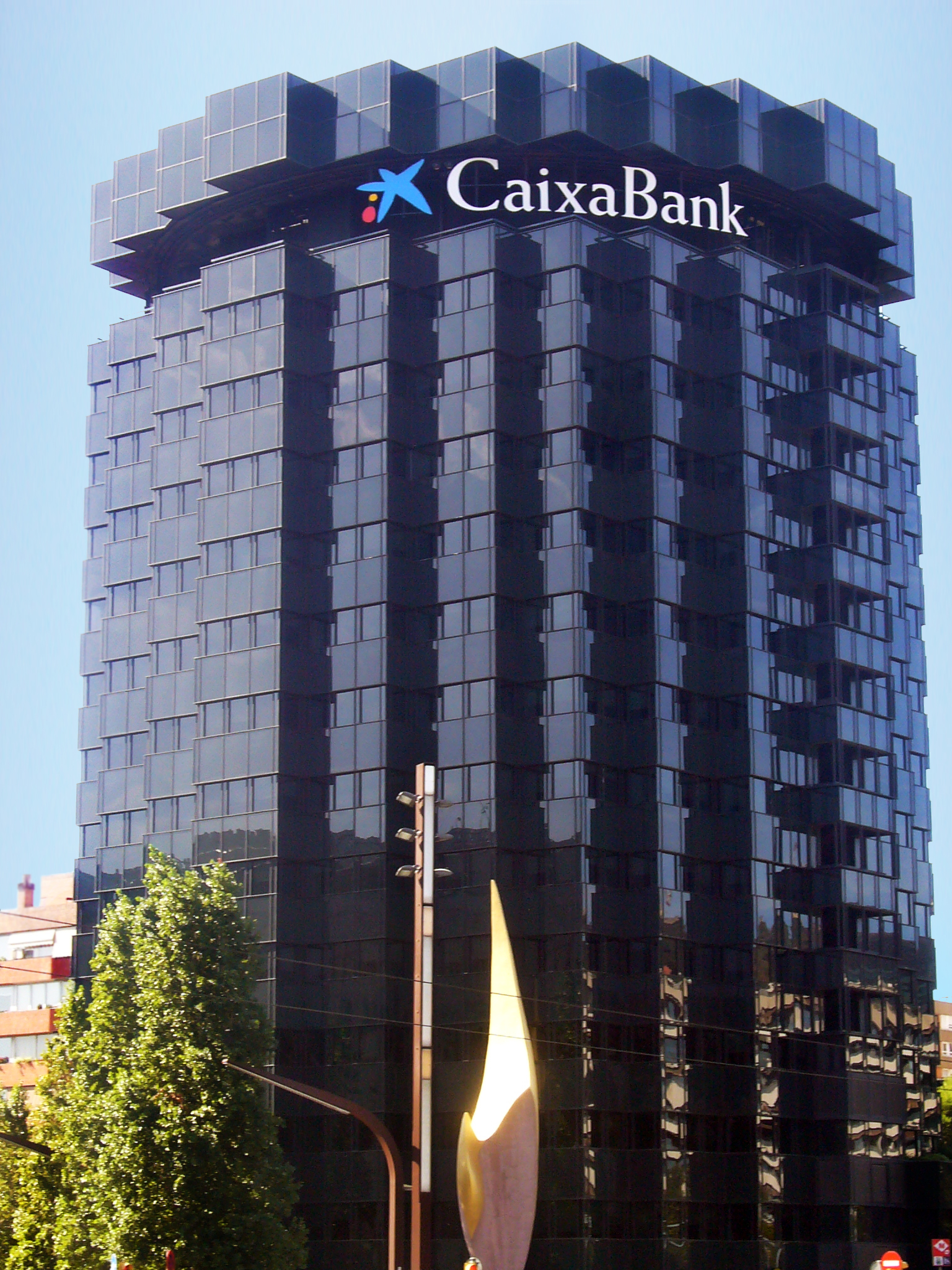 CaixaBank building, Barcelona